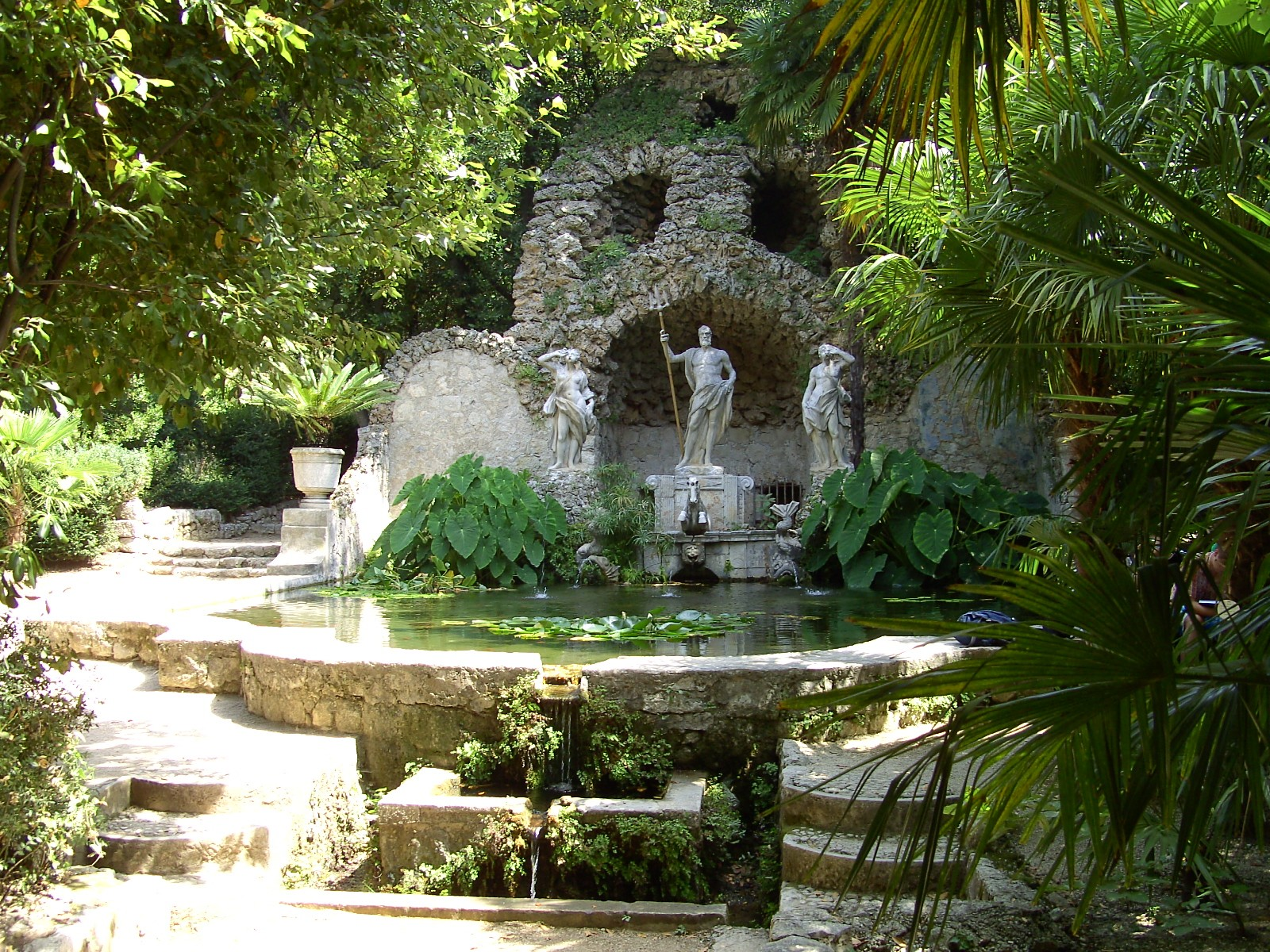 Trsteno Arboretum, Croatia